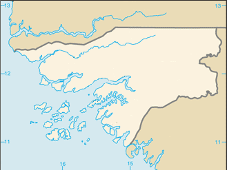 Map of Guinea-Bissau (blanked)